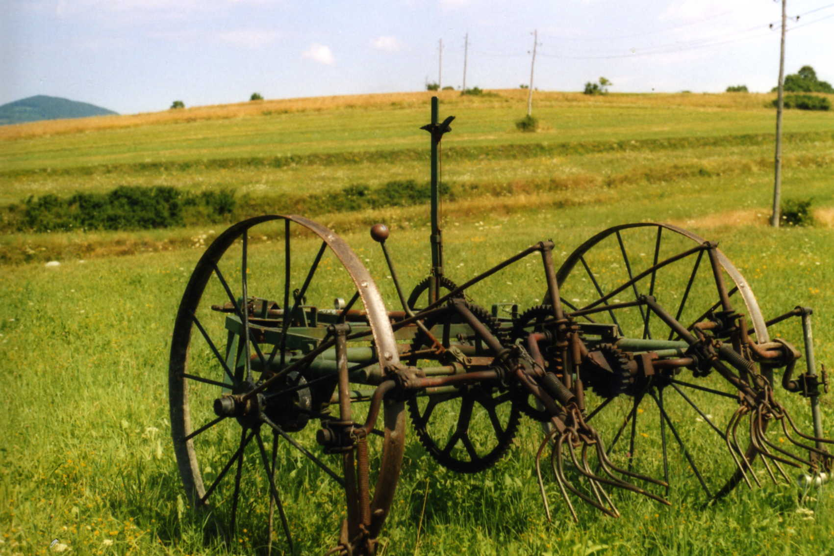 Fork hay tedder near the village of Stari trg (Poljanska valley in the Bela krajina region of Slovenia